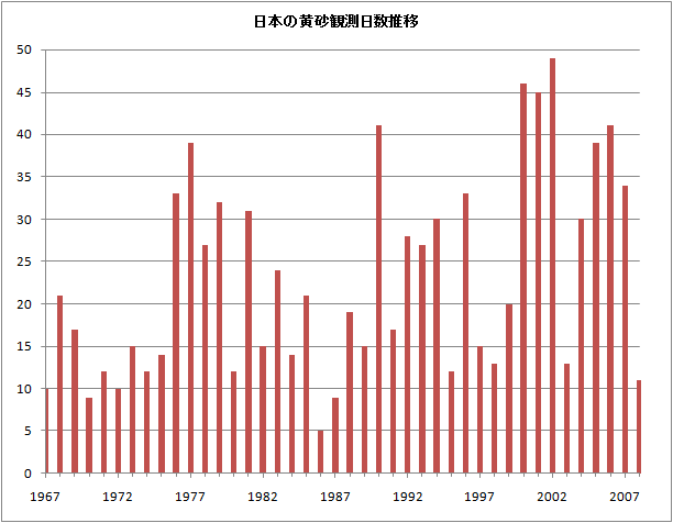 asian dust obserbed days per year in Japan(76points, 1967~2008).